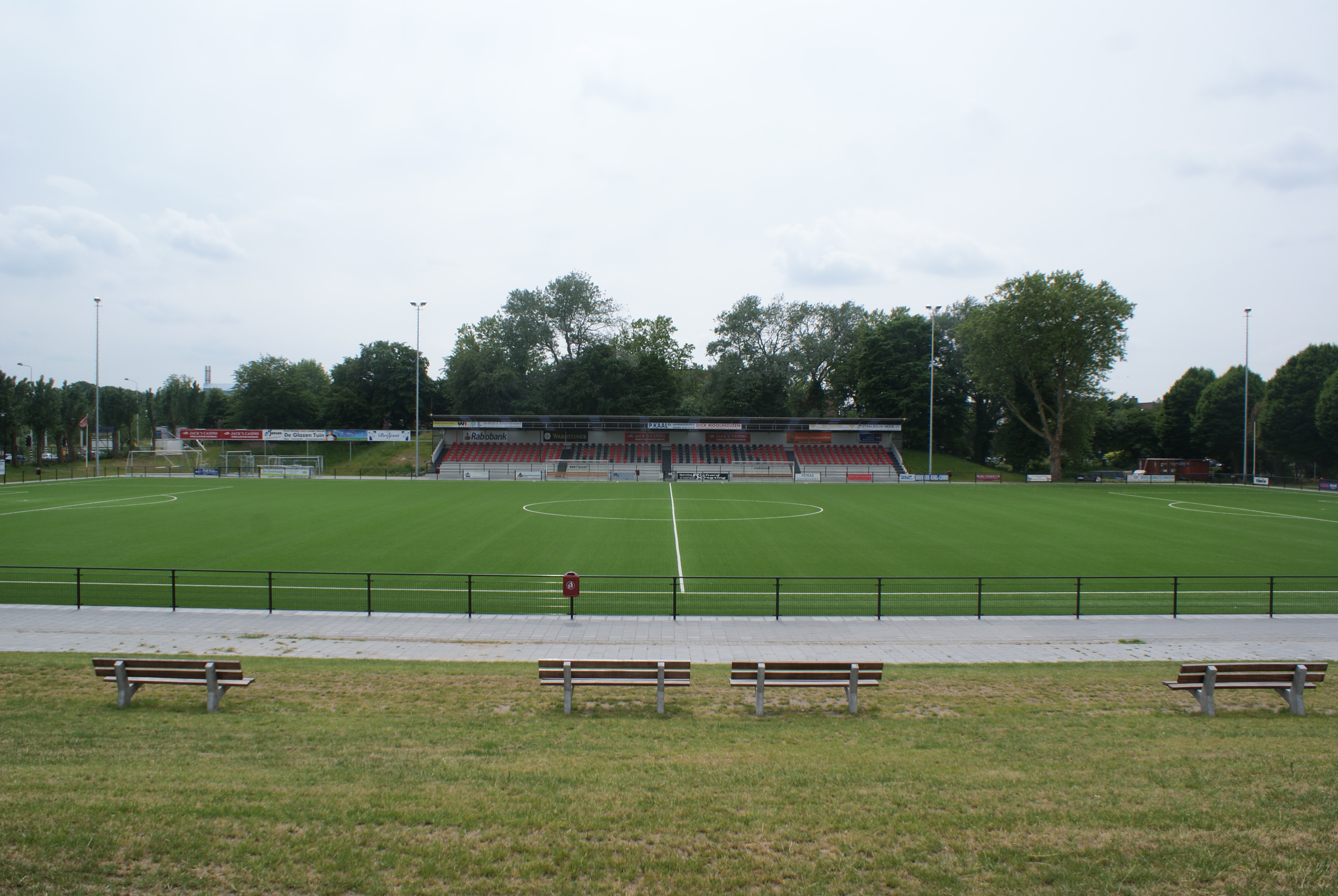 Stadion De Dennen